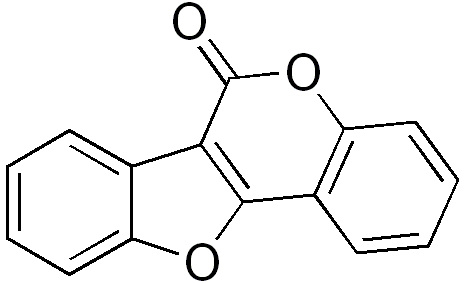 chemical structure of coumestan